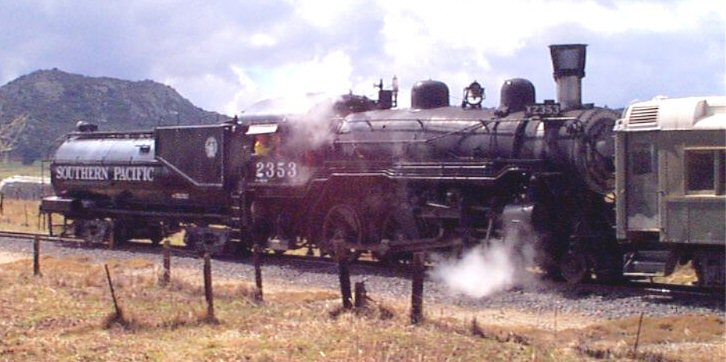 Former Southern Pacific Lines No. 2353, a 4-6-0 oil burning steam locomotive built by the Baldwin Locomotive Works in 1912. The restored unit was photographed on March 7, 1999 in operation at the Pacific Southwest Railway Museum in Campo, California over the original San Diego & Arizona Railway mainline, powering on of the museum's period demonstration trains. Photograph by Robert A. Estremo, copyright 1999.